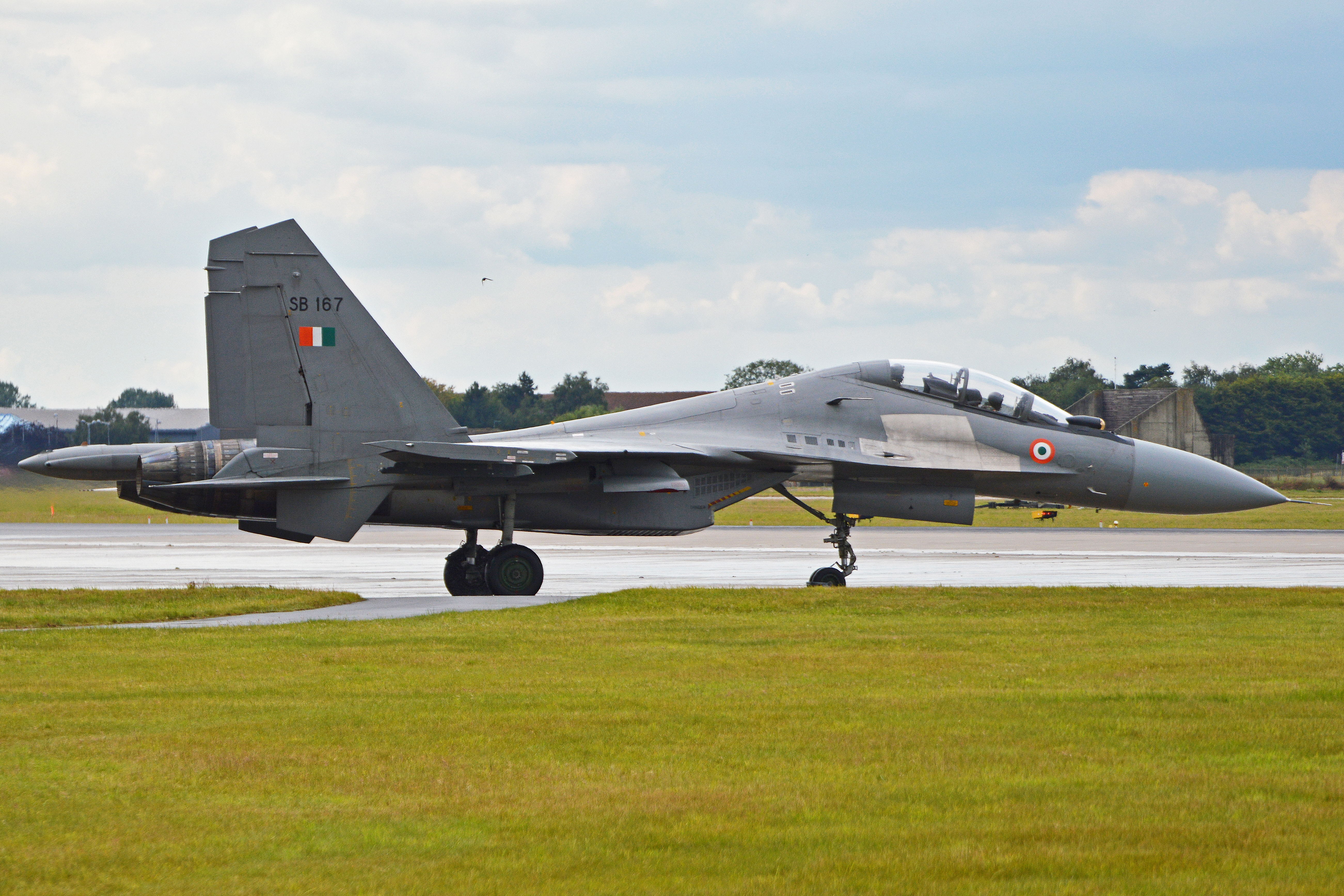 Operated by 2sqn, Indian Air Force, and based at Kalaikunda. Seen taxiing out to depart from RAF Coningsby, Lincolnshire, UK, during Operation Indradhanush IV. 29-7-2015